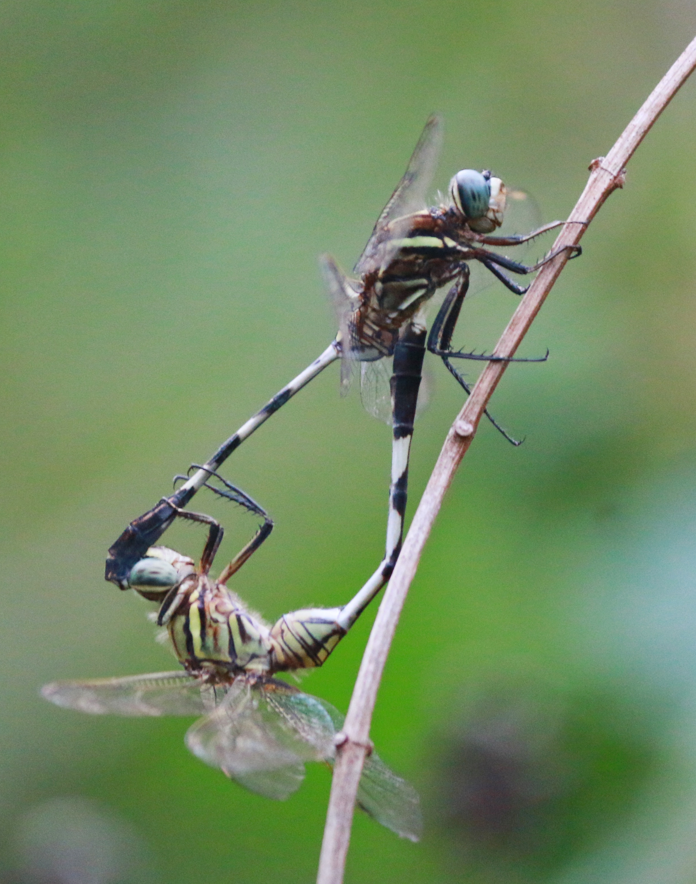 Green Marsh Hawk,Orthetrum sabina,mating